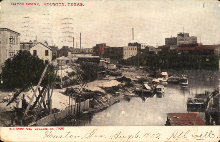 Bayou Scene, Houston, Texas (postcard, circa 1907)